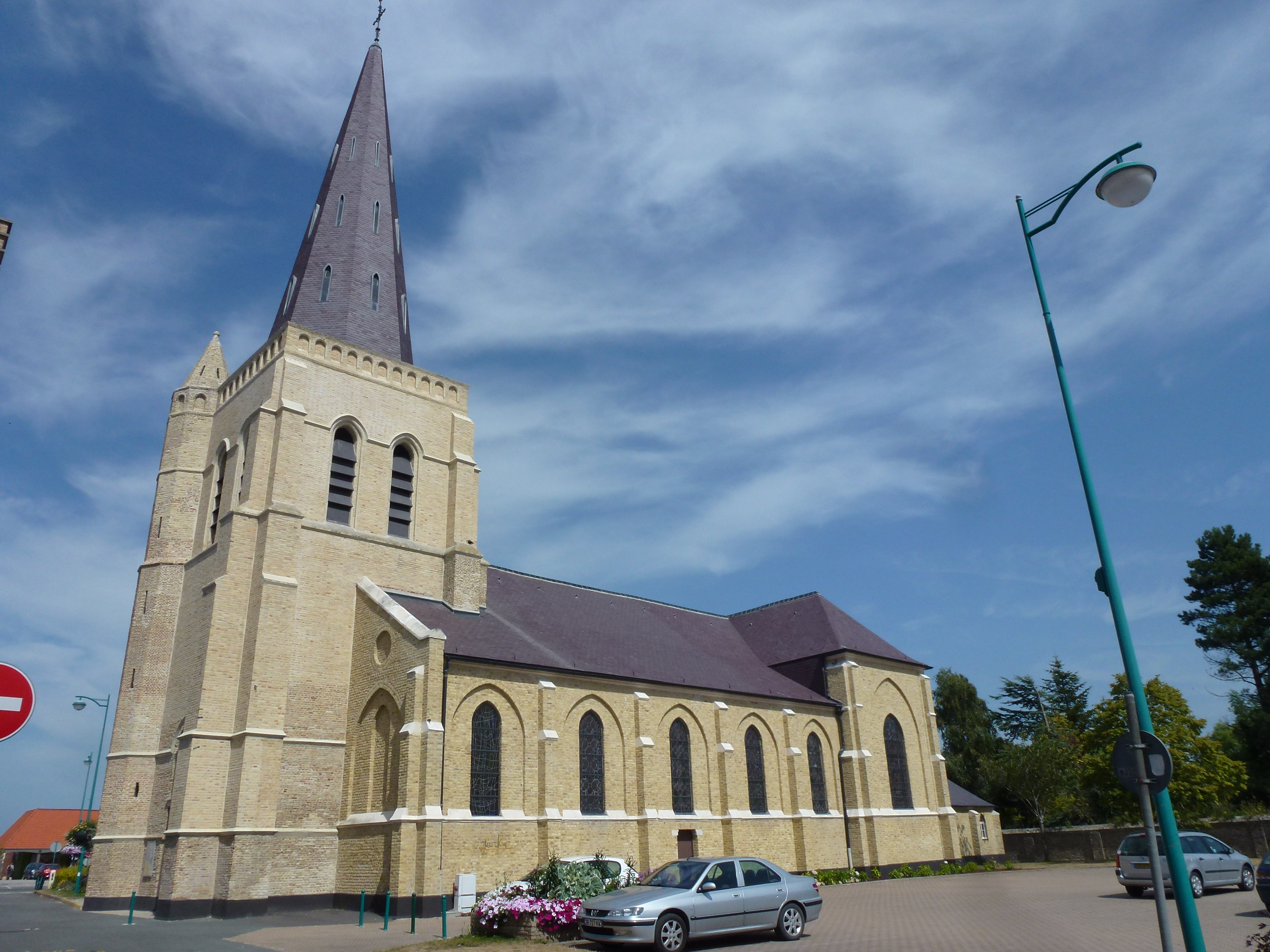 Oye-Plage (Pas-de-Calais) église Saint-Médard